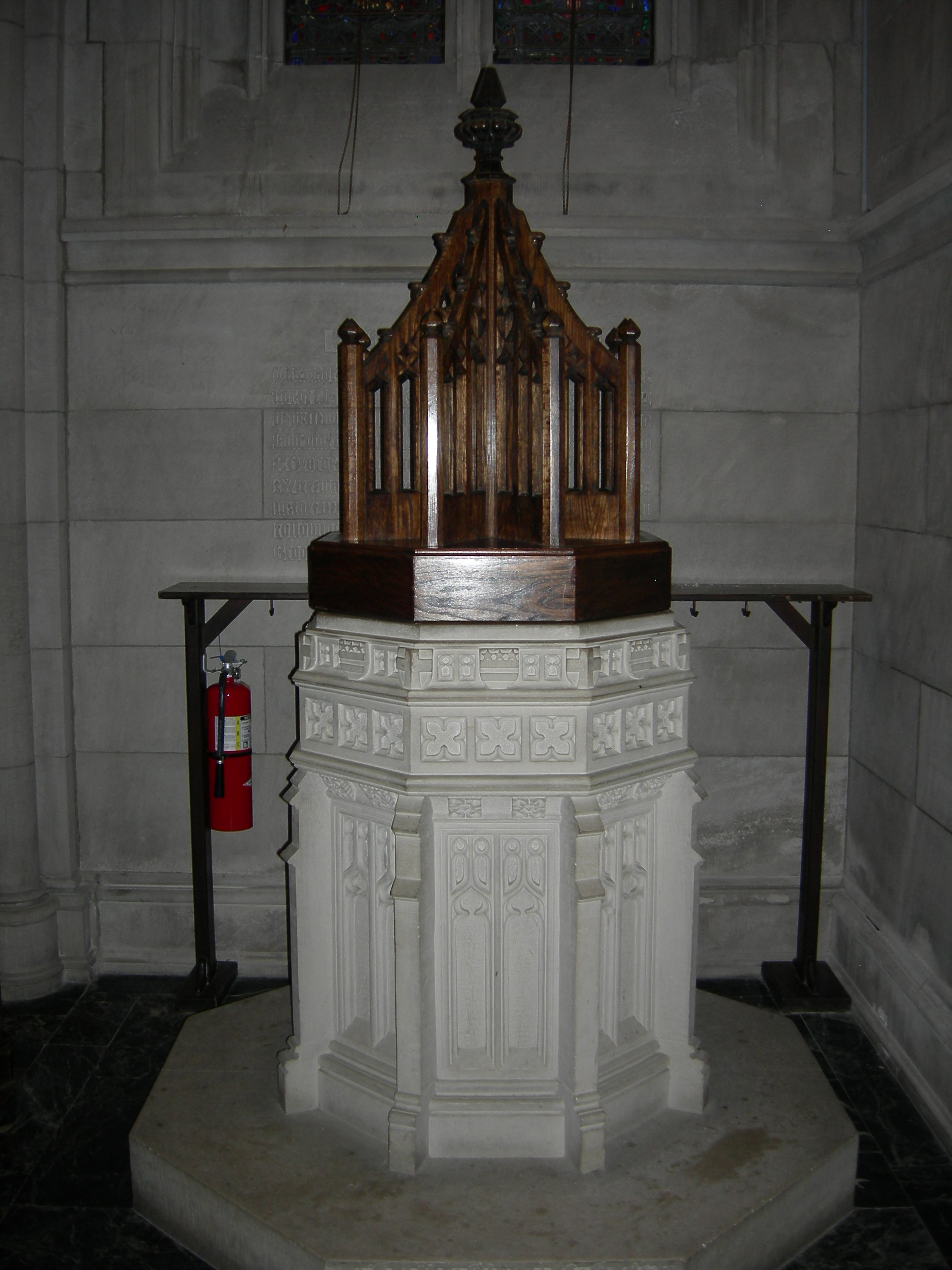 Baptismal font (1907), Washington Memorial Chapel, Valley Forge, Pennsylvania. Designed by Milton B. Medary. Gift of Mr. & Mrs. William M. Sullivan in memory of their son, Ralph J. Sullivan (1890–1903). Dedicated June 19, 1907.